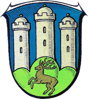 Coat of Arms of Immenhausen